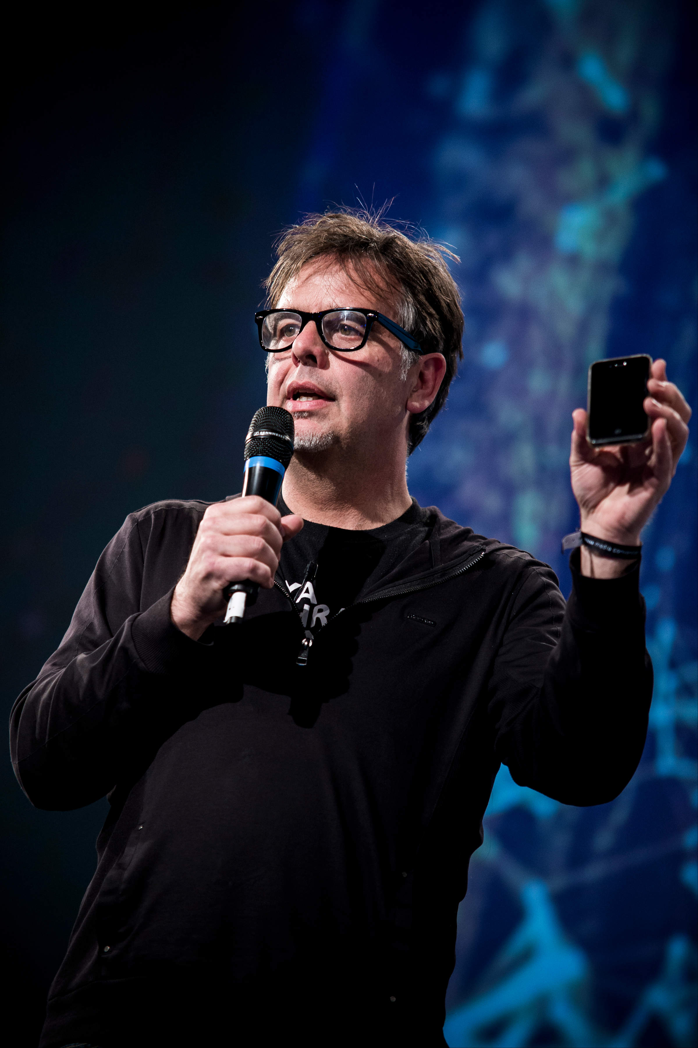 republica 2014 - Tag 2, Stage 1, Ron Deibert Copyright: republica/Gregor Fischer, 07.05.2014 CC-BY-SA 2.0